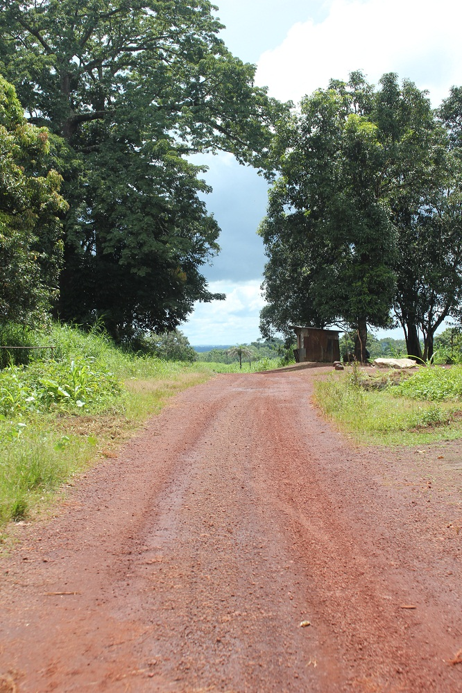 The road before Kamakwie en route to Outamba-Kilimi National Park in Sierra Leone. See more at